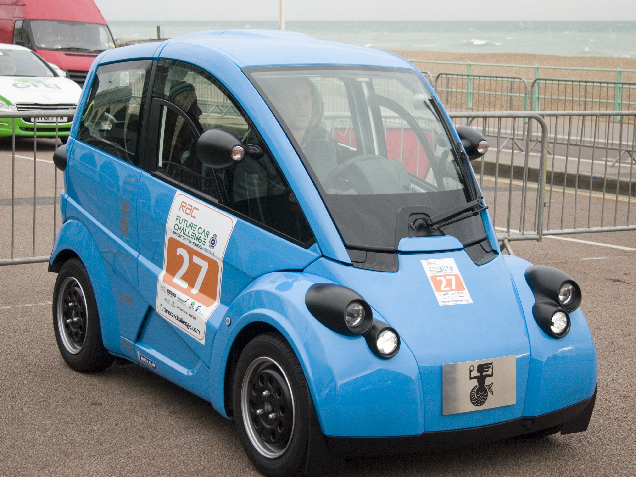 Gordon Murray Design Make and Model: Gordon Murray Design T.27 Start Number: 27 Energy: EV (Electric Vehicle) The 2011 event winner, with the lowest energy consumption for the approximately 54 miles / 87 kilometre route - expressed in terms of kilowatt-hours [kWh] - recorded at 7.0 kWh. [1 kWh = 3.6 megajoules]